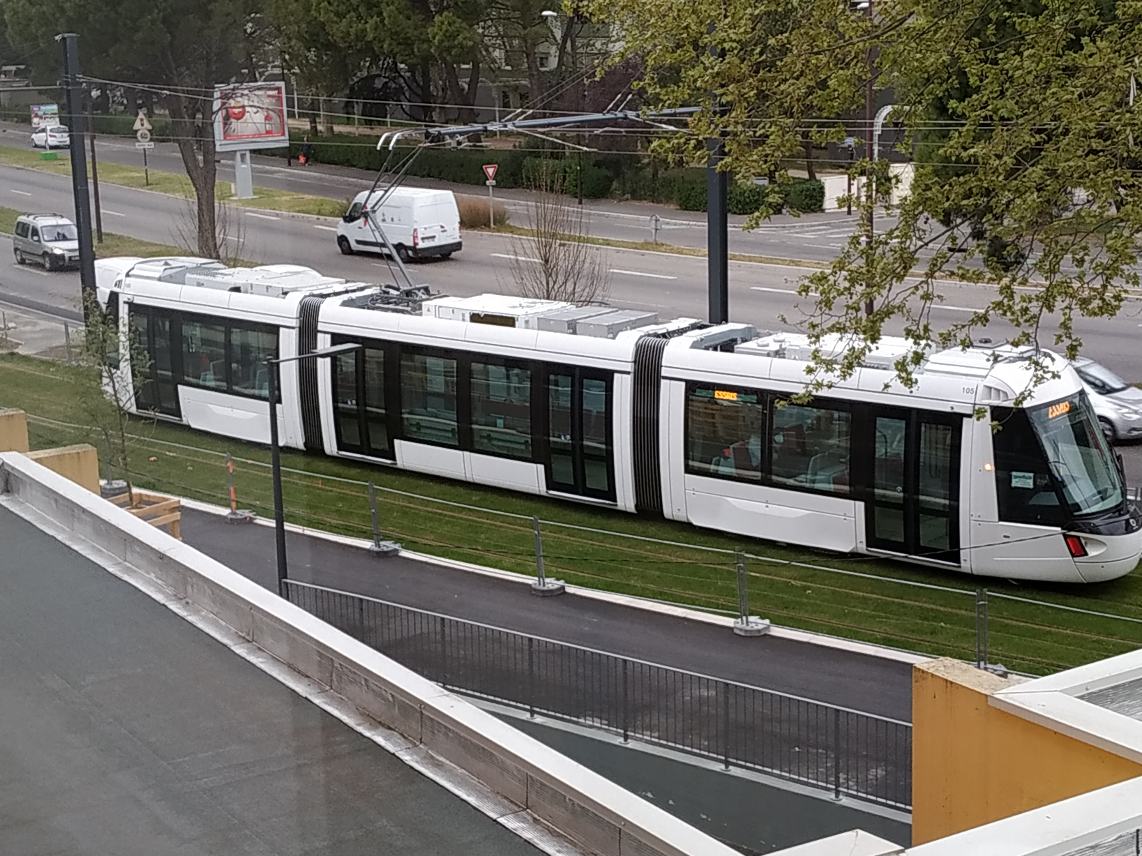 Avignon tramway train during tests on April 2019